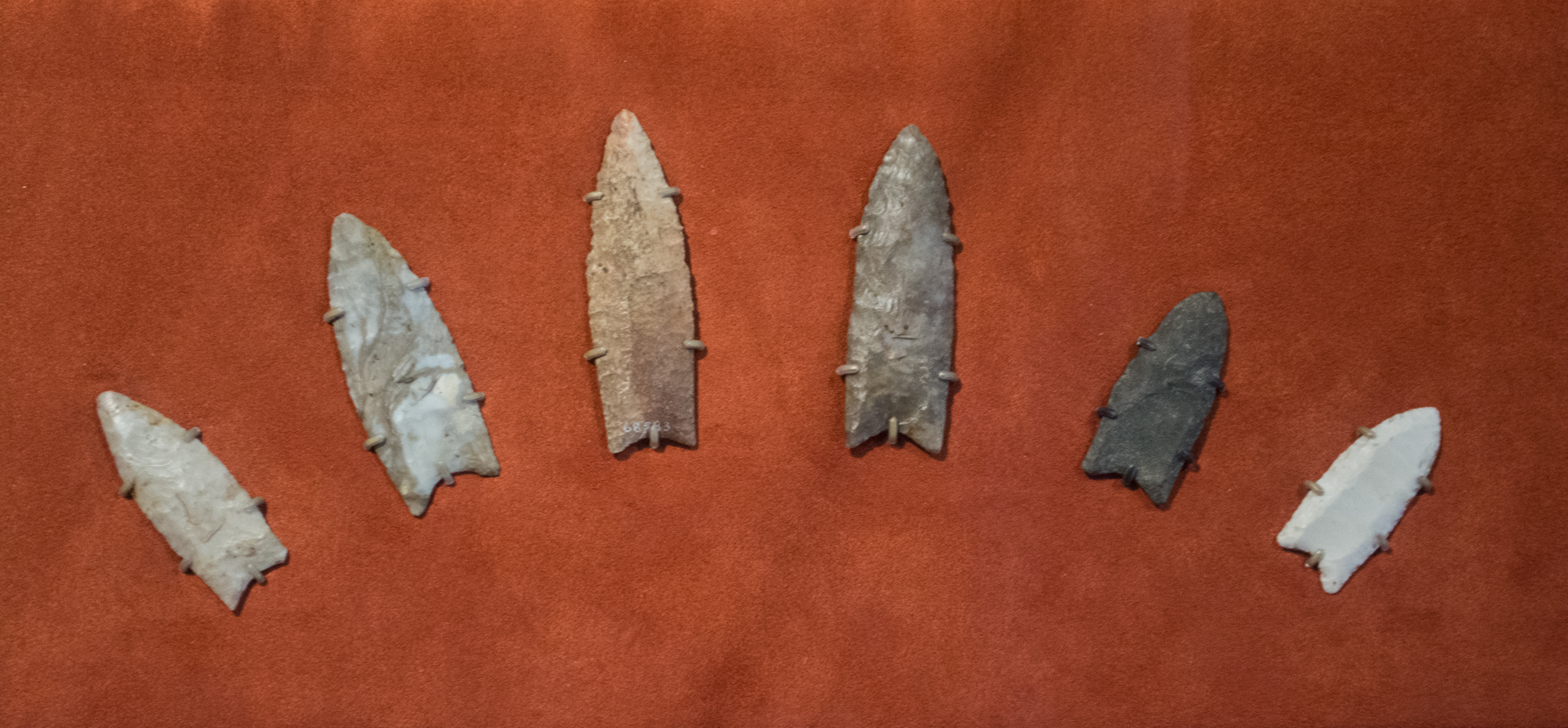 Clovis spearpoints on display at the Cleveland Museum of Natural History in Cleveland, Ohio. Named for Clovis, New Mexico, where such uniquely designed spearpoints were first found by archeologists, these spearpoints date from 13,500 to 13,000 years ago. They were found in (from left to right) Wisconsin, Wisconsin, Wisconsin/Illinois border, Illinois, Ohio, and Georgia.